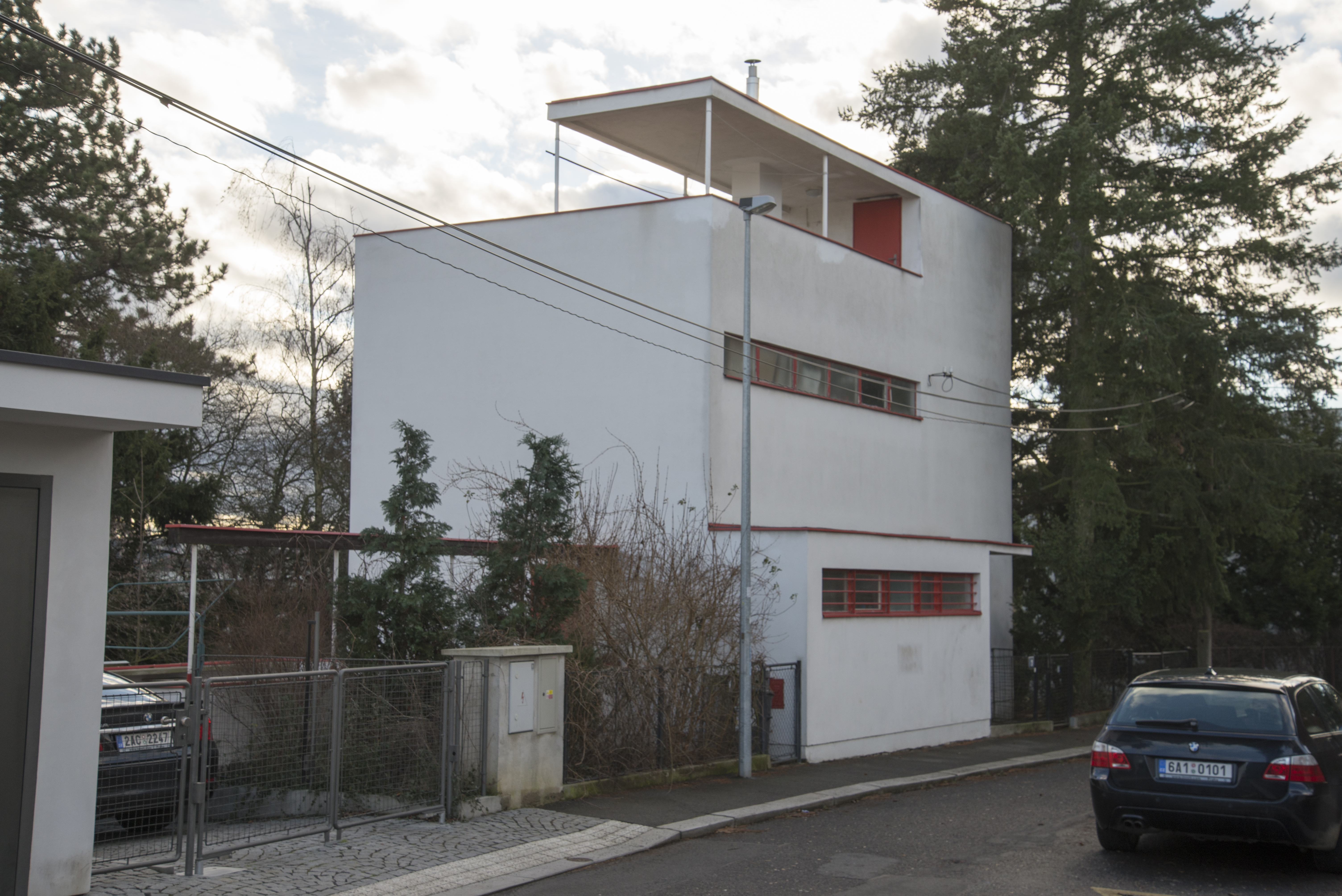 Osada Baba (Baba Functionalism colony in Prague) - House Herain